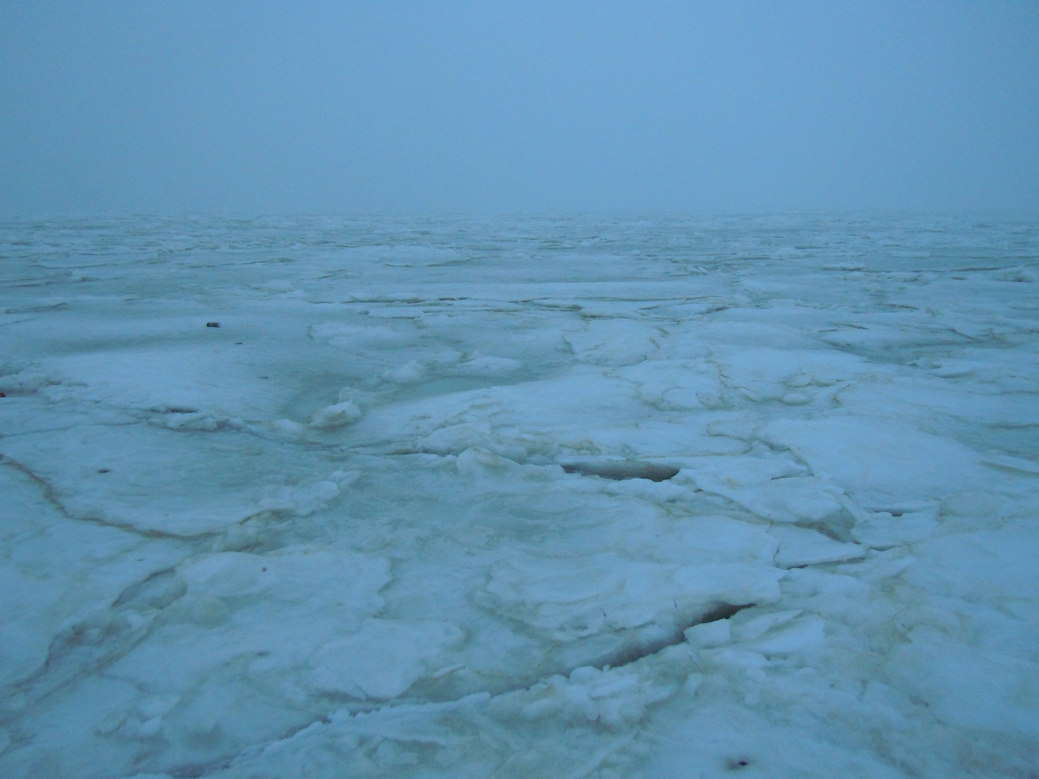 The ice on the Gulf of Odessa, Black Sea